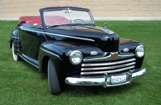 The 1946 Ford Super De Luxe convertible used in Back to the Future by Biff Tannen (played by Tom Wilson).